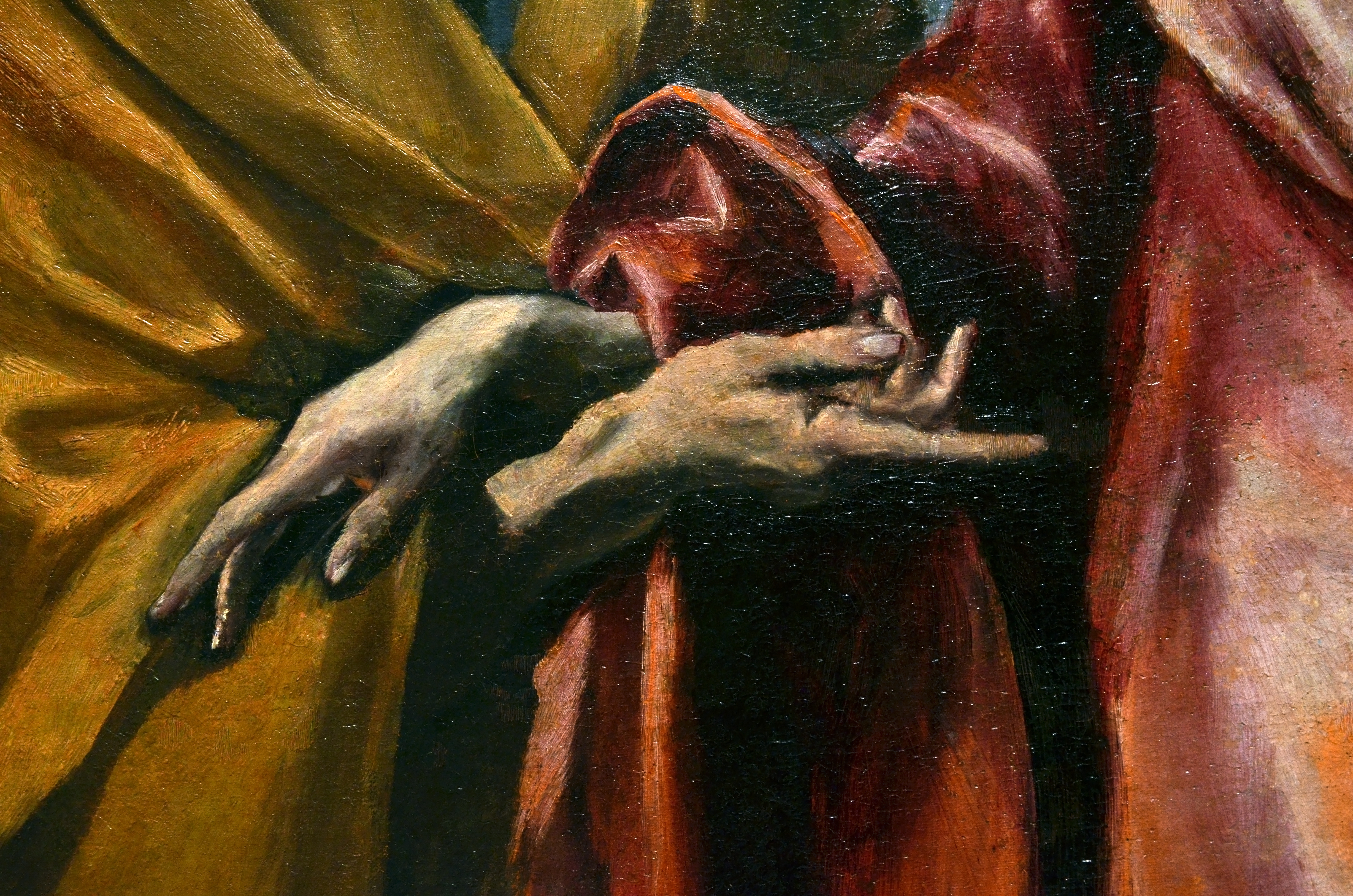 Detail of Saint Pierre and Saint Paul, oil on canvas by El Greco ( 1541-1614 ). MNAC ( Museu Nacional d'Art de Catalunya ), in Barcelona.